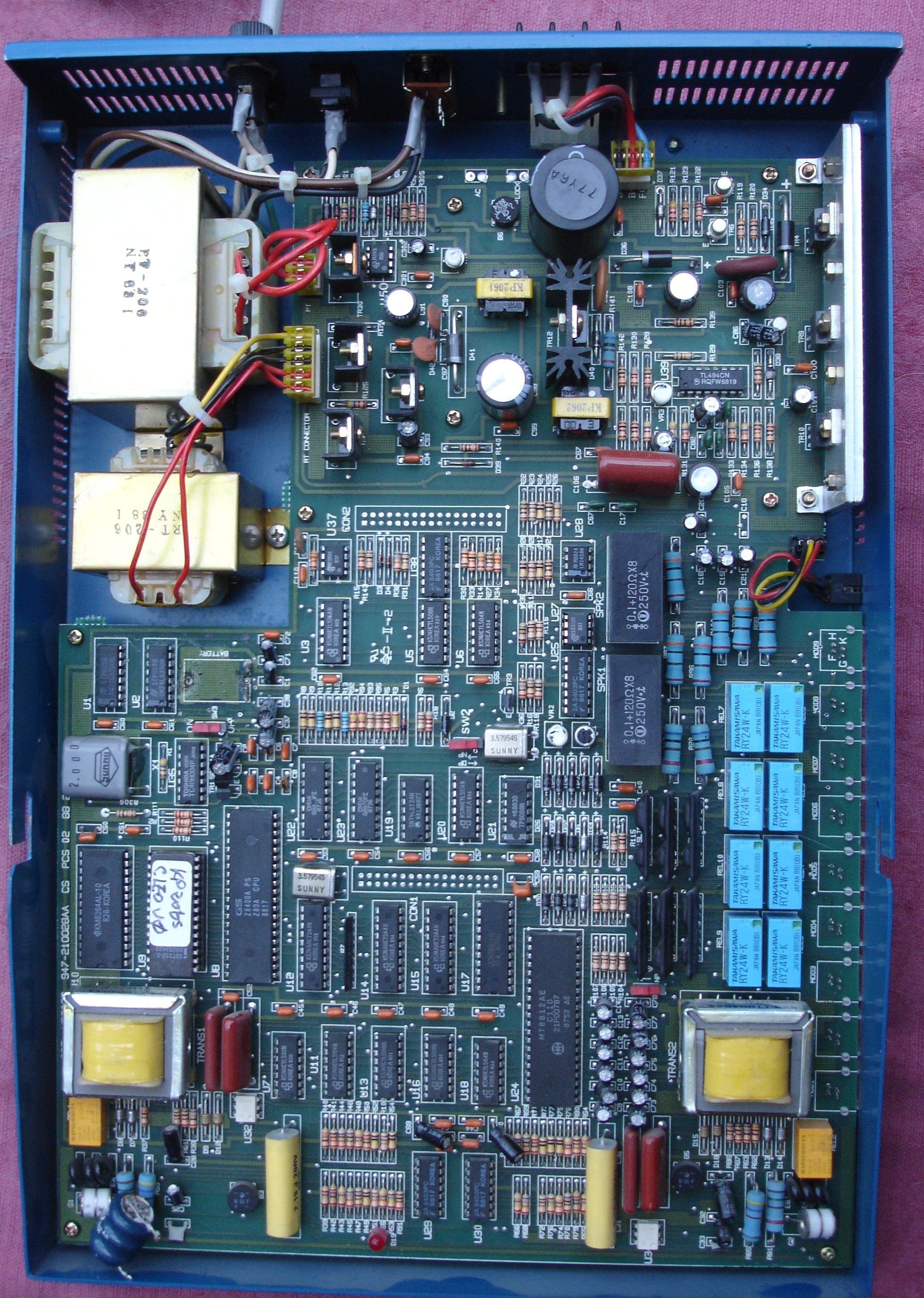 home telephone exchange